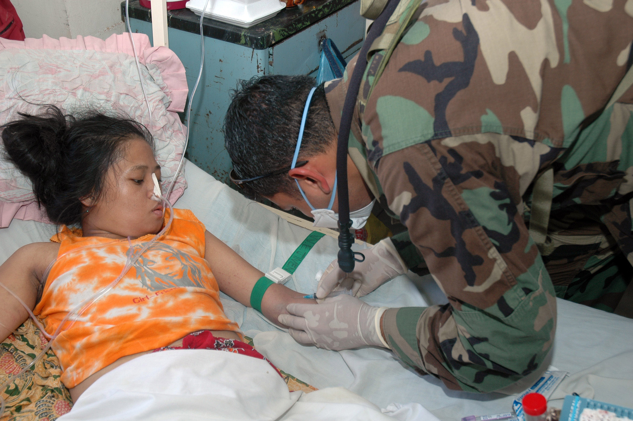 Zamboanga, Philippines (May 30, 2006) – U.S. Navy Hospital Corpsman 3rd Class Umair Iqbal of Bayshore, N.Y., draws blood from a patient for medical testing in the Intensive Care Unit (ICU) at the Zamboanga Medical Center while the U.S. Military Sealift Command (MSC) hospital ship, USNS Mercy (T-AH 19) visits the city on a scheduled humanitarian visit. The medical crew aboard Mercy will provide general and ophthalmology surgery, basic medical evaluation and treatment, preventive medicine treatment, dental screenings and treatment, optometry screenings, eyewear distribution, public health training and veterinary services as requested by the host nations. Like all U.S. Naval forces Mercy is able to rapidly respond to a range of situations on short notice. Mercy is uniquely capable of supporting medical and humanitarian assistance needs and is configured with special medical equipment and a robust multi-specialized medical team who can provide a range of services ashore as well as aboard the ship. The medical staff is augmented with an assistance crew, many of whom are part of non-governmental organizations, which have significant medical capabilities. U.S. Navy photo by Photographer's Mate 1st Class Michael R. McCormick (RELEASED)